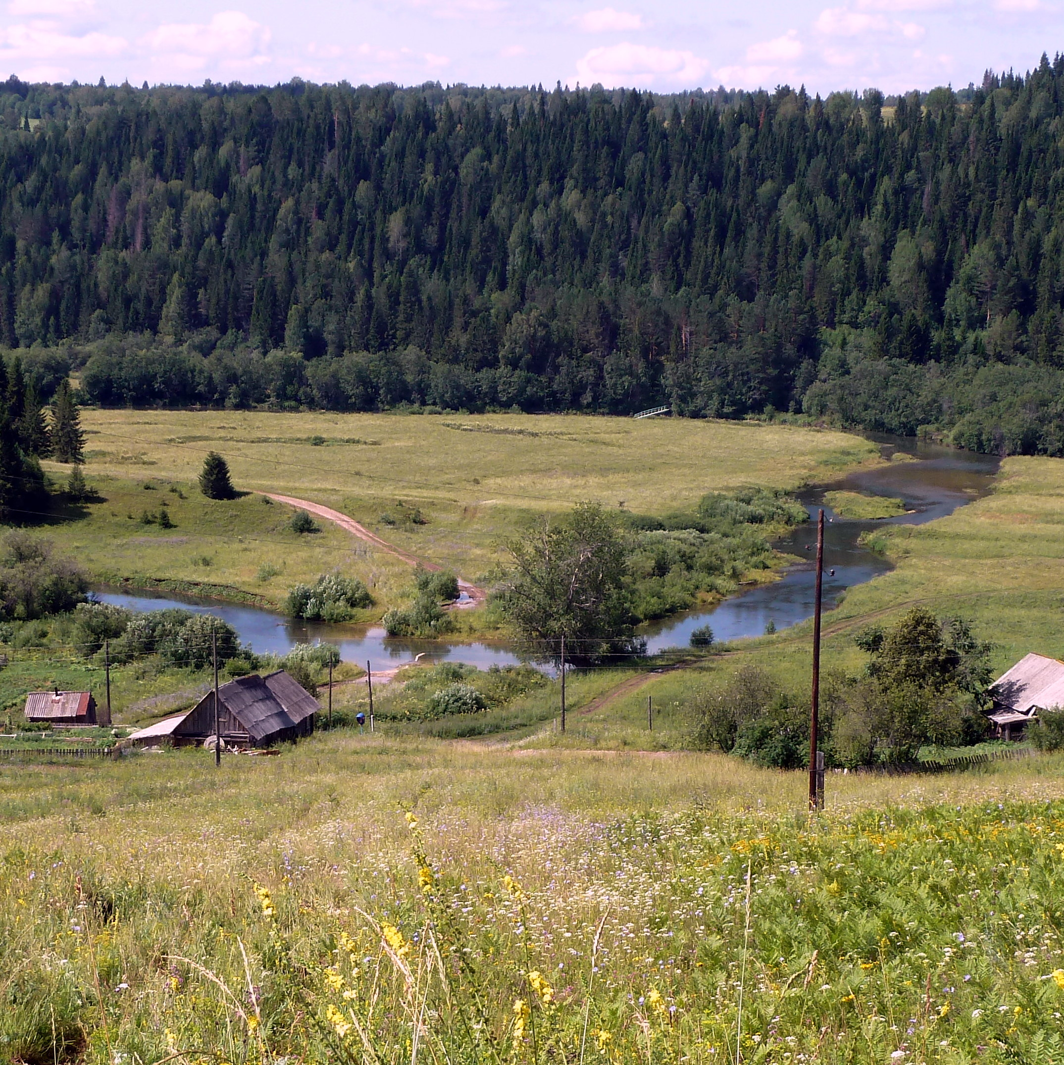 Sars river in the Petropavlovsk, Oktyabrsky rayon (Perm krai), Russia. Confluence of the Mash river is just on the right side close to the woods.